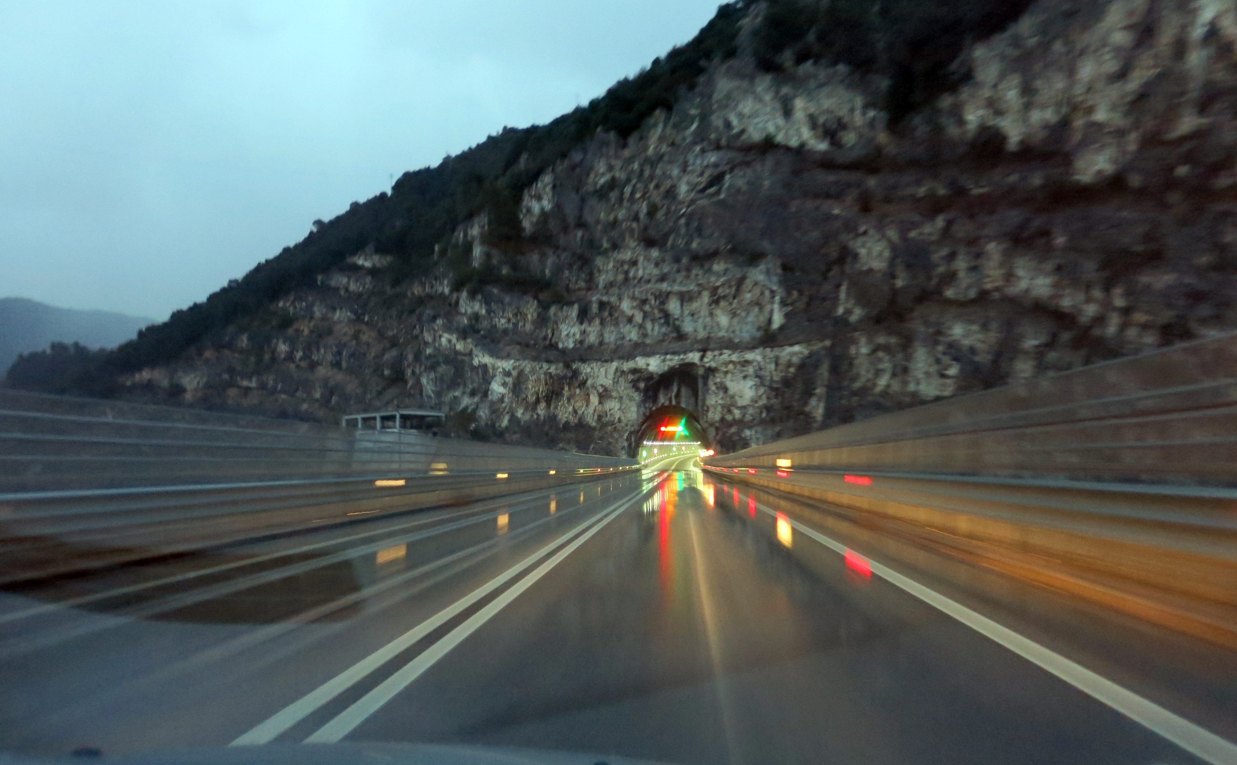 Italian state road n. 79 "Ternana" (Rieti-Terni highway) - car view of the Marmore bridge, as seen travelling towards Rieti, with in the background the south portal of the Valnerina tunnel